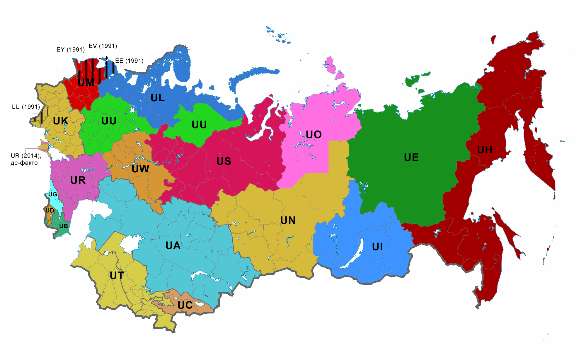 Diagram shows original geographical attachment of ICAO aerodrome codes with U prefix (originally assigned for USSR). The dashed regions later changed codes.